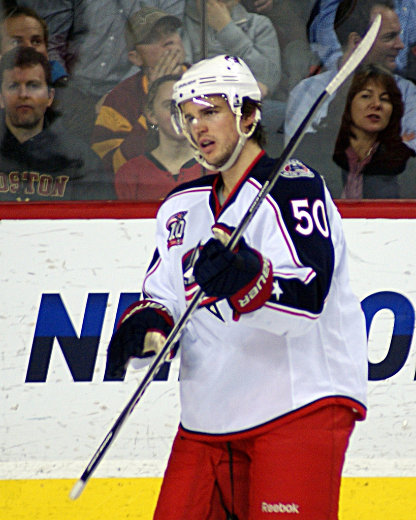 Antoine Vermette, born July 20, 1982 in St-Agapit, Quebec, is a Canadian professional ice hockey player currently with the Columbus Blue Jackets of the National Hockey League. This NHL game action photo was taken December 13, 2010 at the Scotiabank Saddledome in Calgary, Alberta.